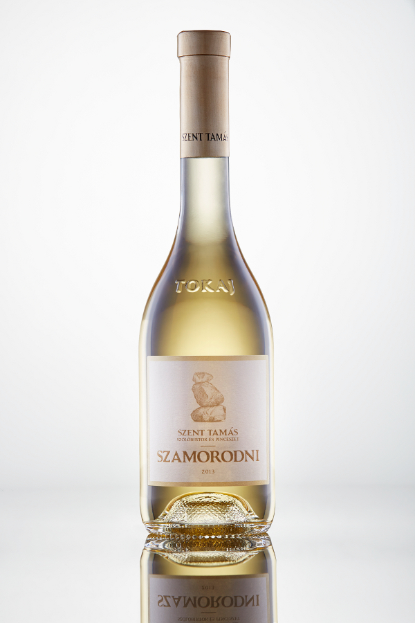 Sweet szamorodni by Szent Tamás Winery